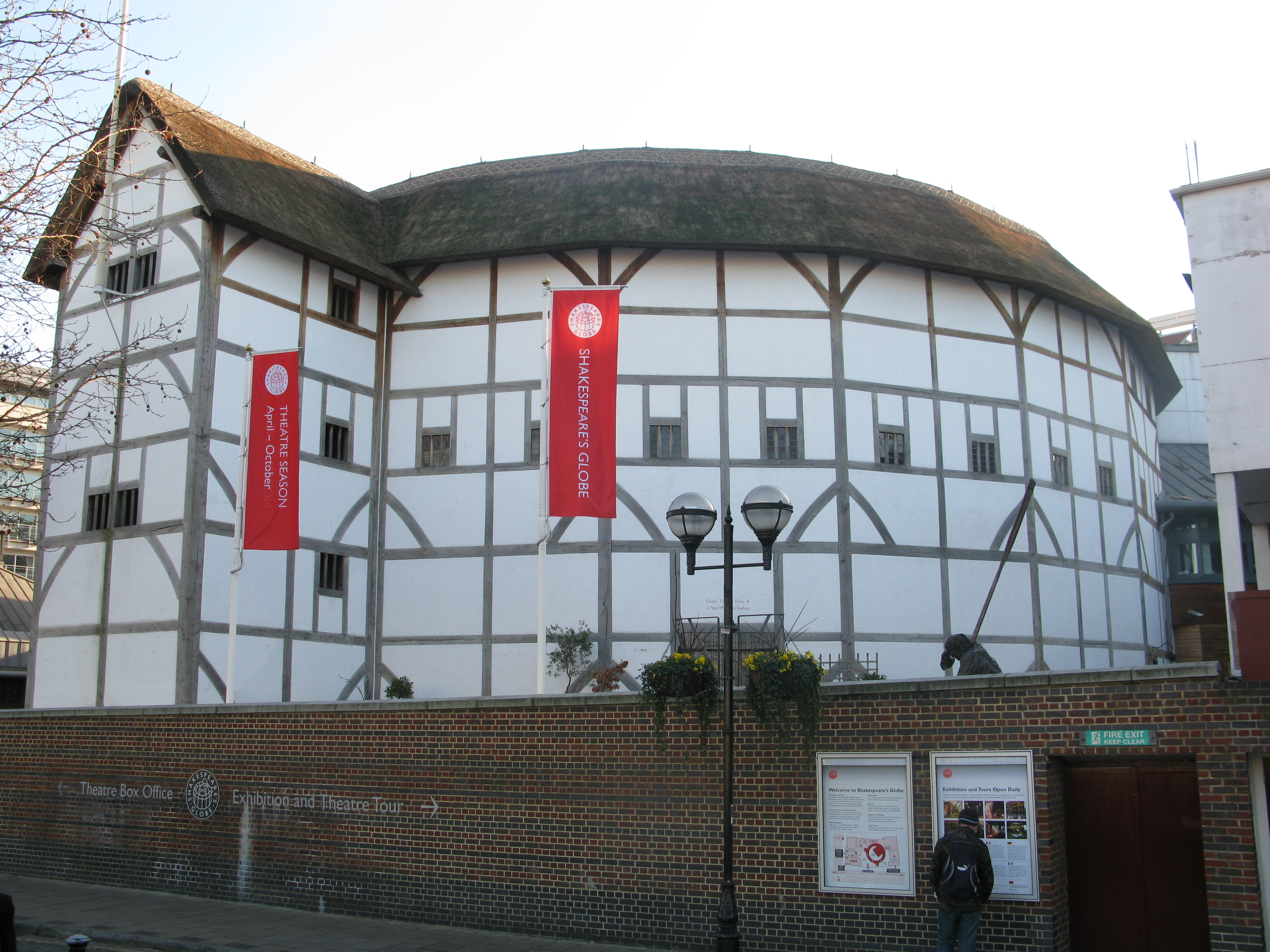 Globe Theatre, London, Great Britain – in London (district: Southwark) at the Thames.